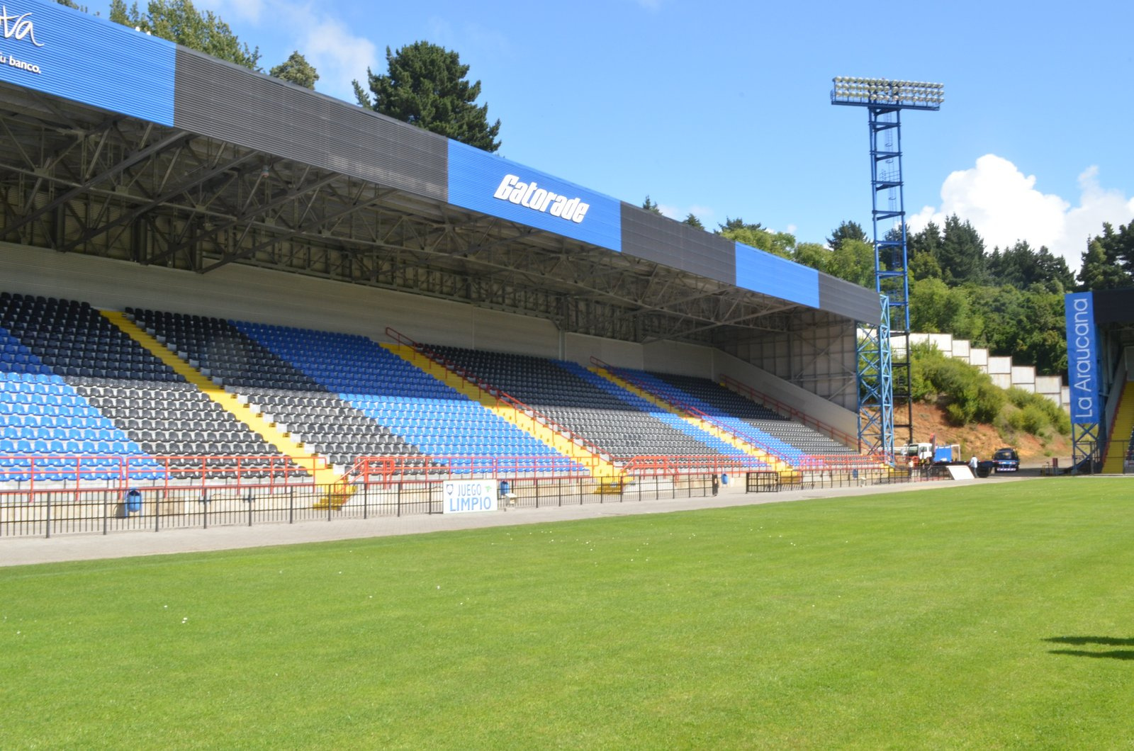 Estadio CAP from Chile.